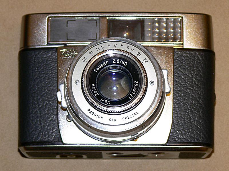 Zeiss Ikon Contessa 35mm camera with Carl Zeiss 50mm f/2.8 lens